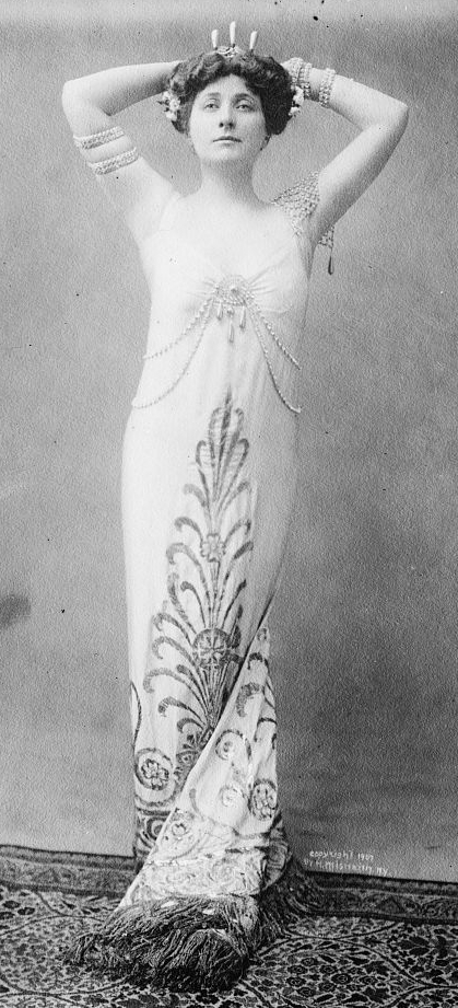 Mary Garden as Thaïs in Massenet's "Thaïs"